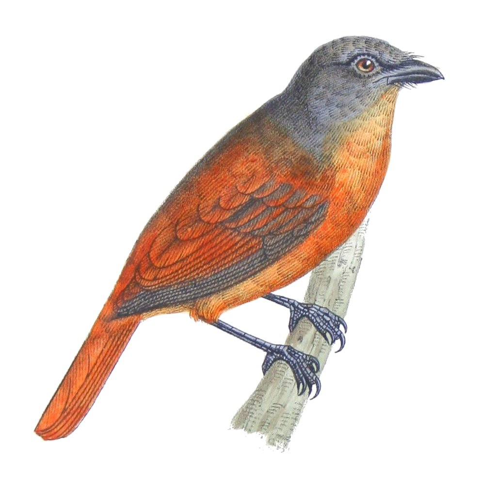 Schifformis major Schiff. = Schiffornis major Des Murs, 1856